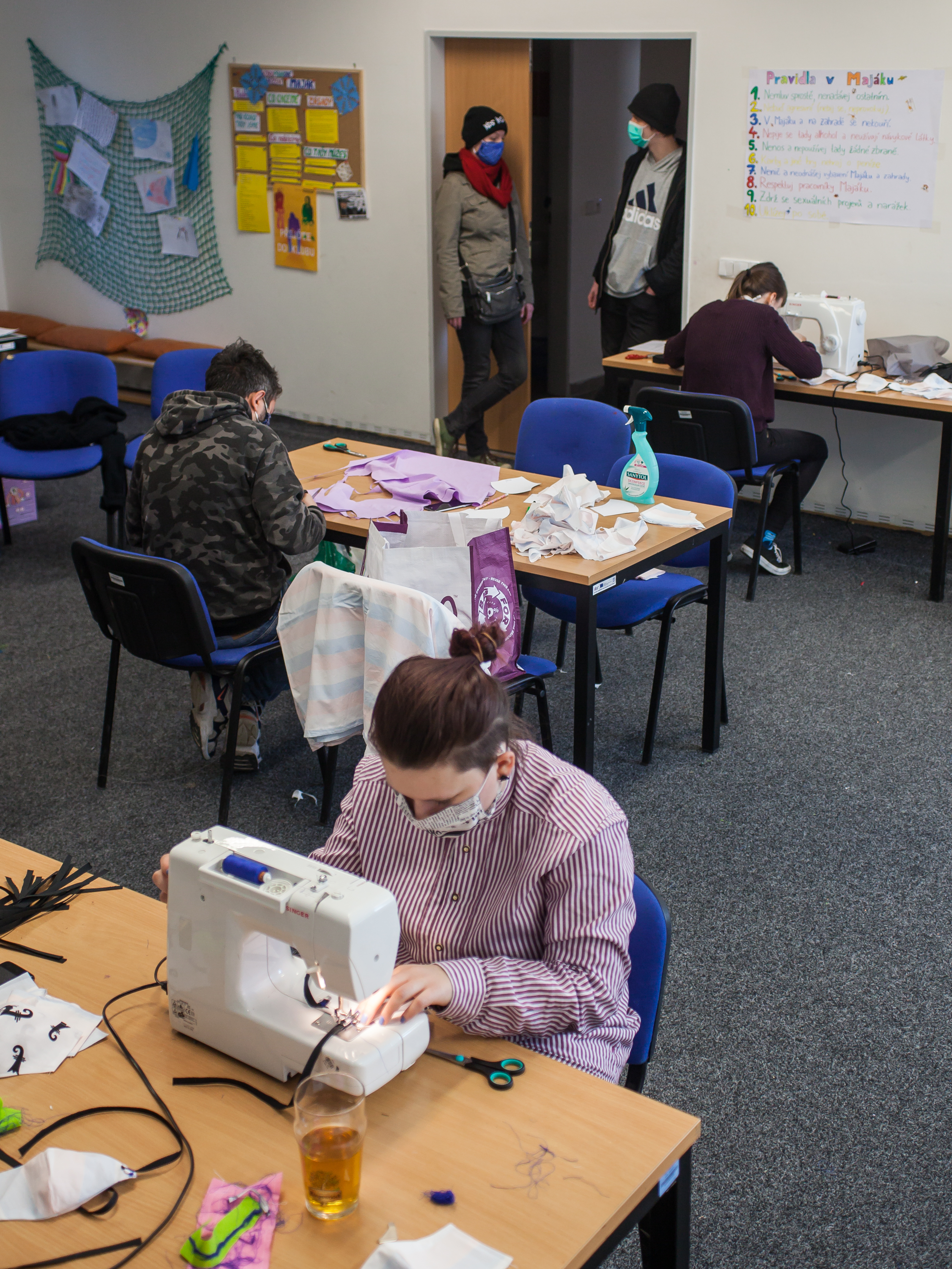 Volunteers sewing home-made medical face masks with a Singer sewing machine due to the resolution of the Government of the Czech Republic (no. 106/2020 Coll.) about the obligation of wearing any kind of respiratory protection in reaction to the 2020 coronavirus pandemic in Czechia (lots of Czech family members and volunteers thus embarked on making their own face masks); Maják community centre in Orlová, Karviná District, Moravian-Silesian Region, Czechia